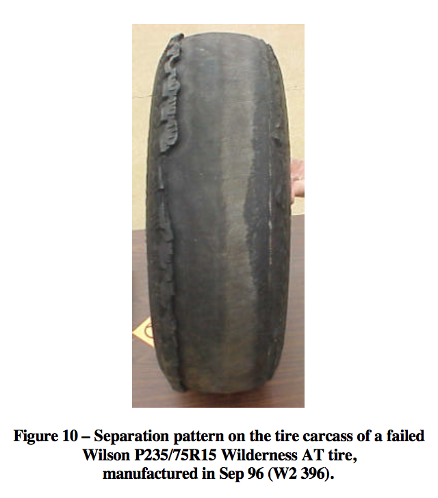 Separation pattern on the tire carcass of a failed Wilson P235/75R15 Wilderness AT tire, manufactured in Sep 96